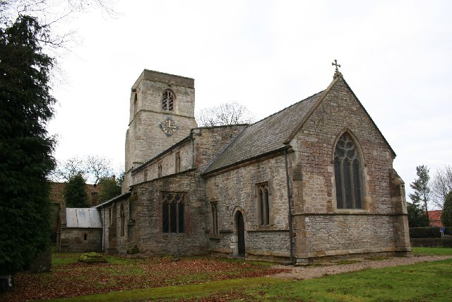 St.Matthew's church, Normanton on Trent. St.Matthew's has a 14th century nave and 15th century tower